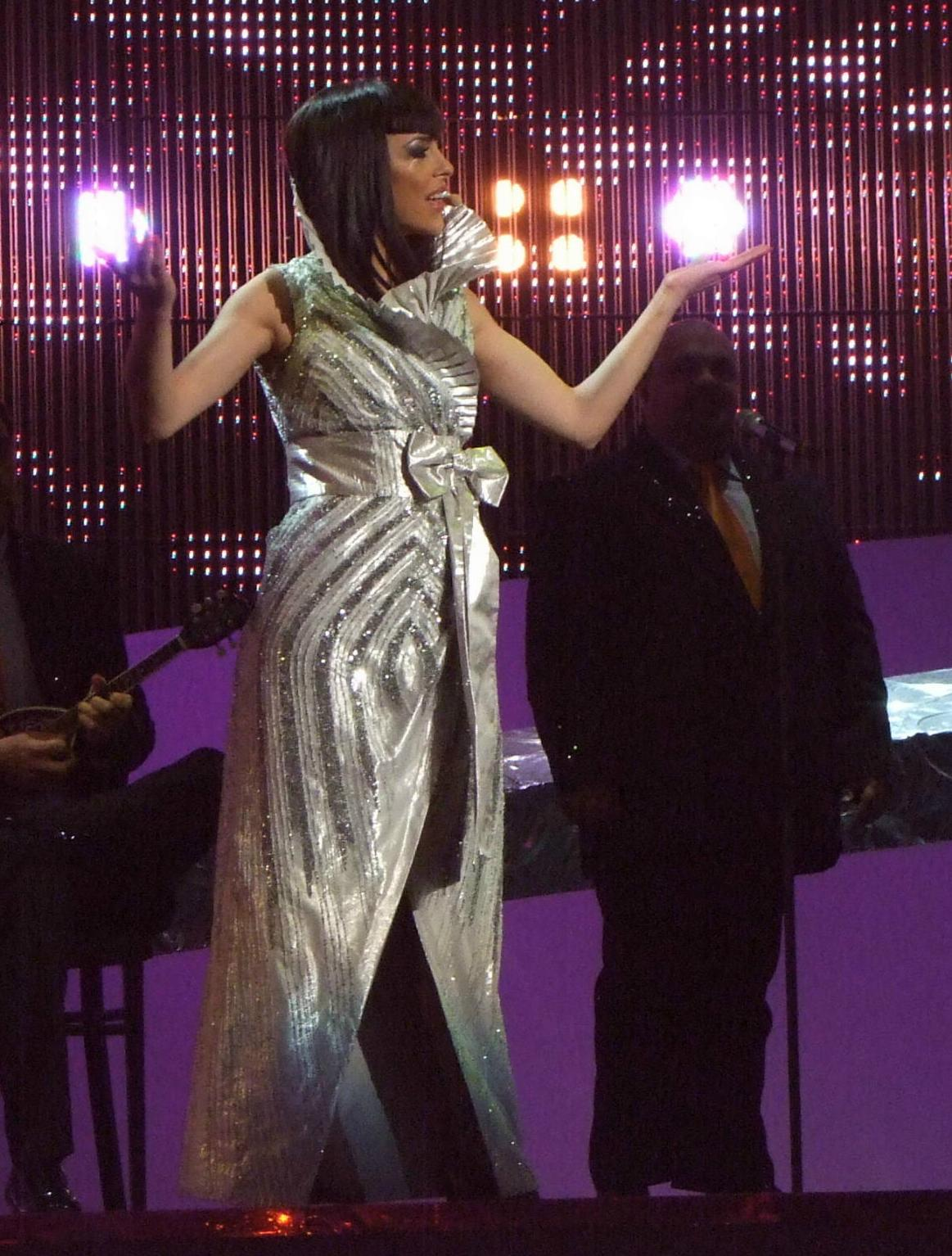 Evdokia Kadi (Cyprus) performing Femme Fatale at second semi-final, Eurovision Song Contest 2008 in Belgrade, Serbia, May 22, 2008.